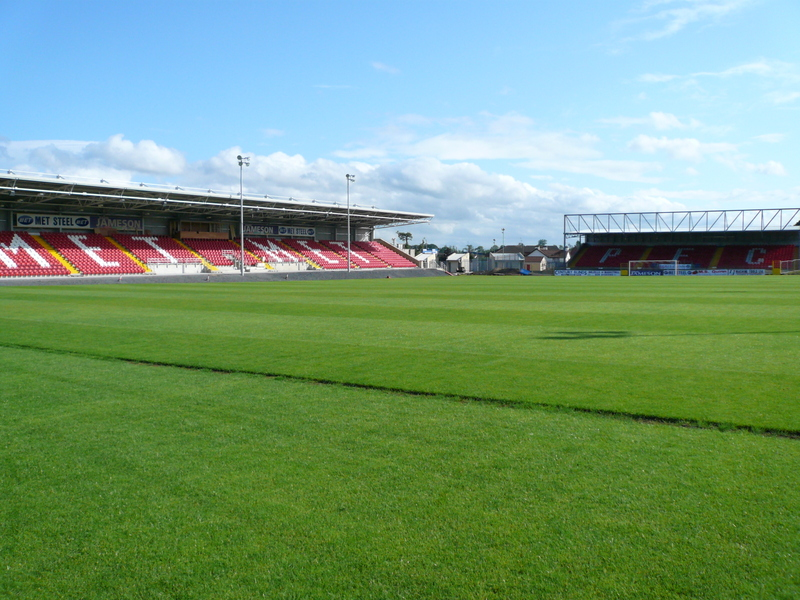 Photo of Shamrock Park showing the MET Steel Stand and the Chalet end stand.